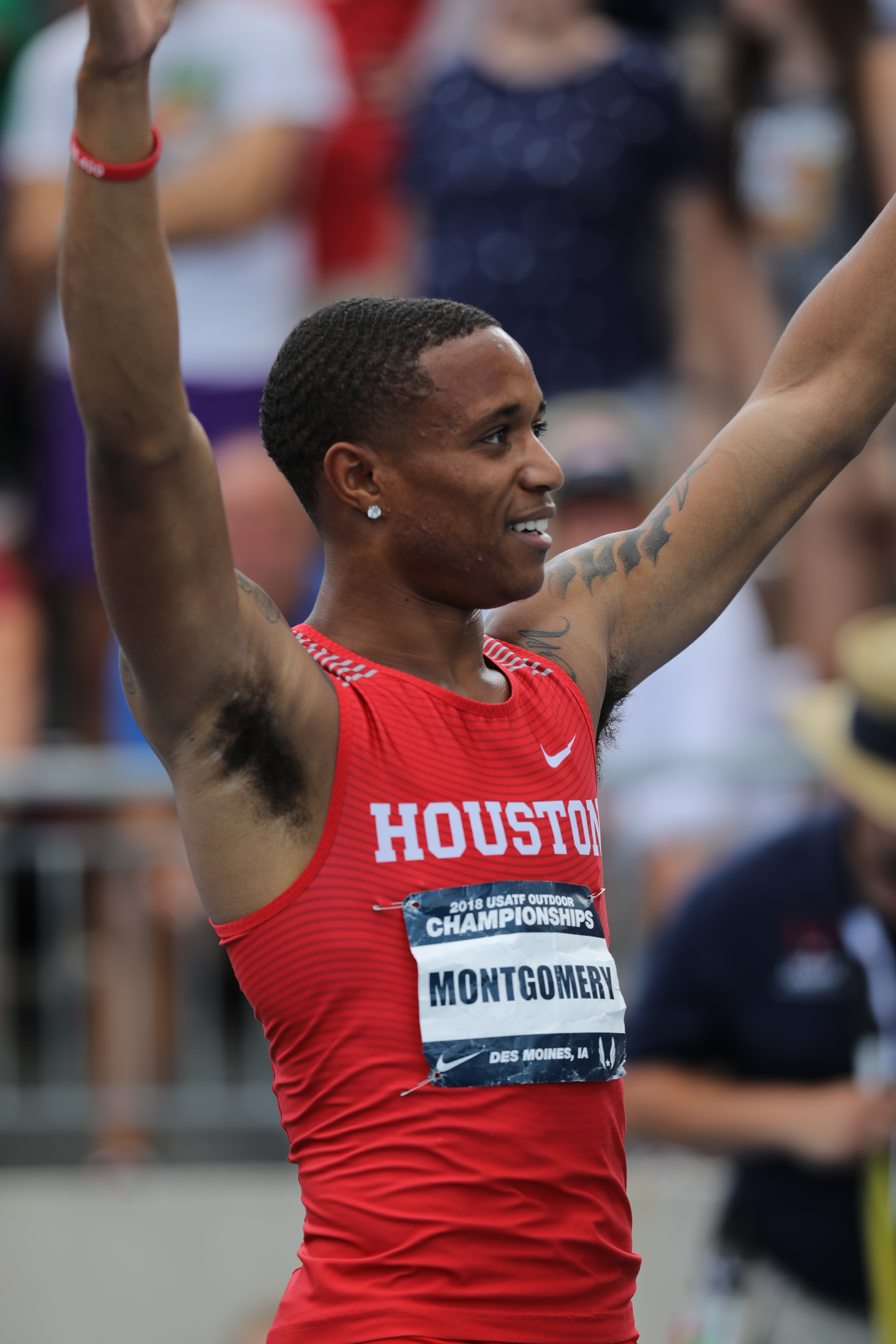 2018 USA Outdoor Track and Field Championships